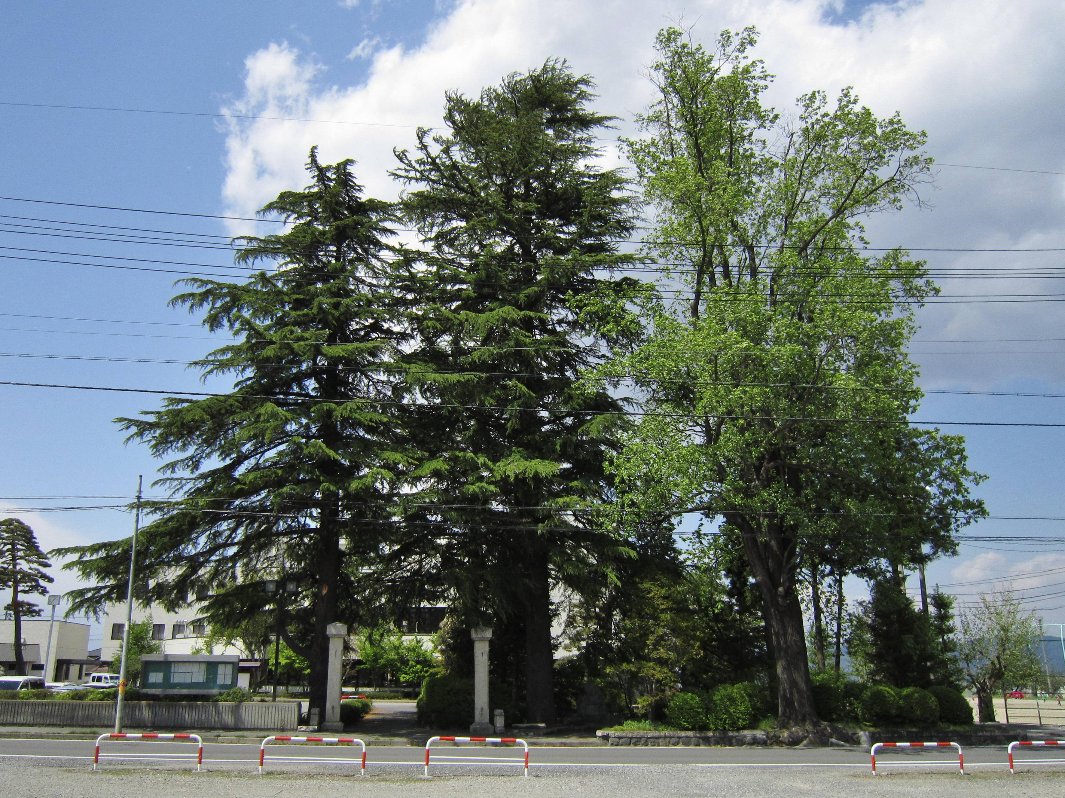 Azumino city Misato branch office.